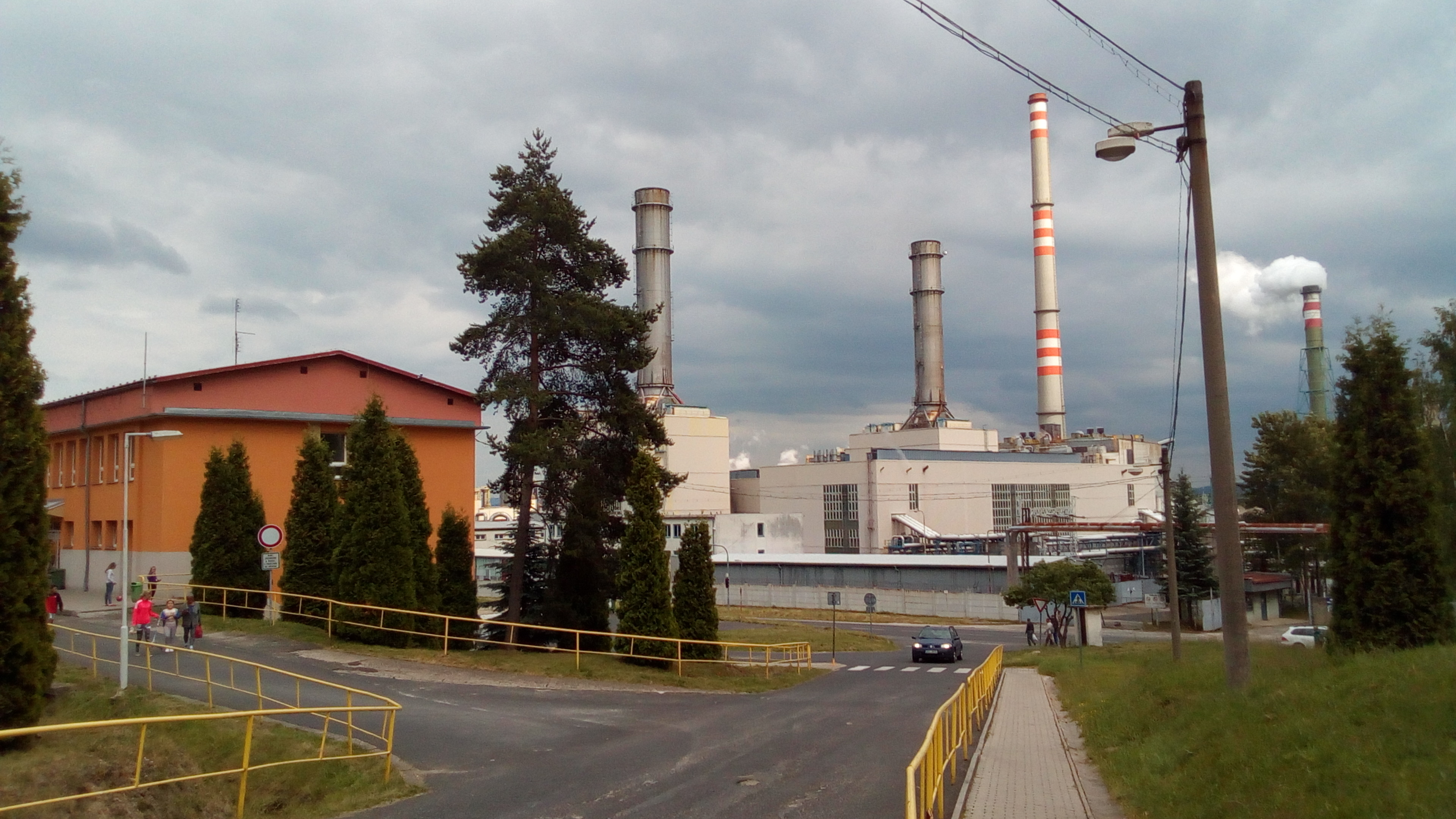 Municipality and factory Vřesová in the Western Bohemia near Chodov